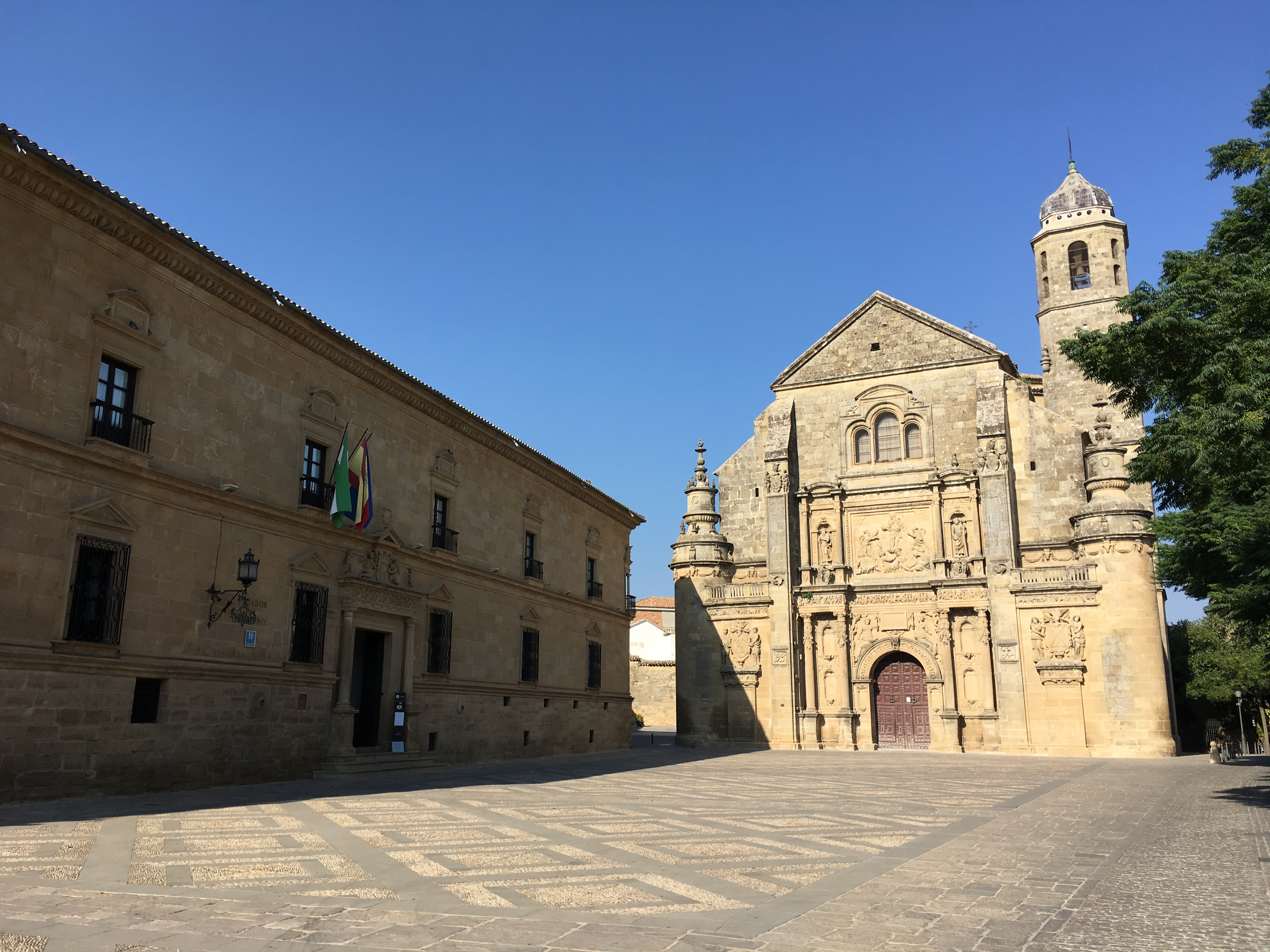 Sacra Capilla del Salvador, Úbeda (Spain)